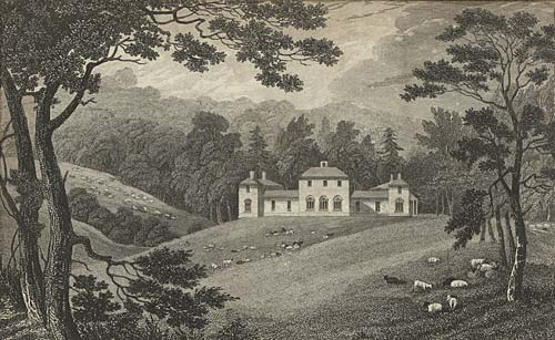 The Leasowes was the residence of the poet William Shenstone, who was also influential in establishing the Ferme ornée of which the The Leasowes estate was an early example. This engraving is of the small mansion built by Edward Horne who demolished Shenstone's house and built his mansion on the same site.